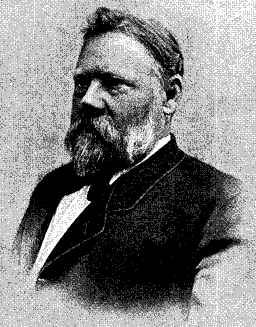 Photograph of Mårten Eskil Winge. From here: Public domain, one way or another.